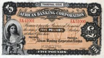 African Banking Corporation bank note published before 1960 (between 1900 and 1920).